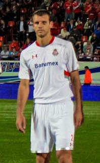 Argentine footballer Diego Novaretti